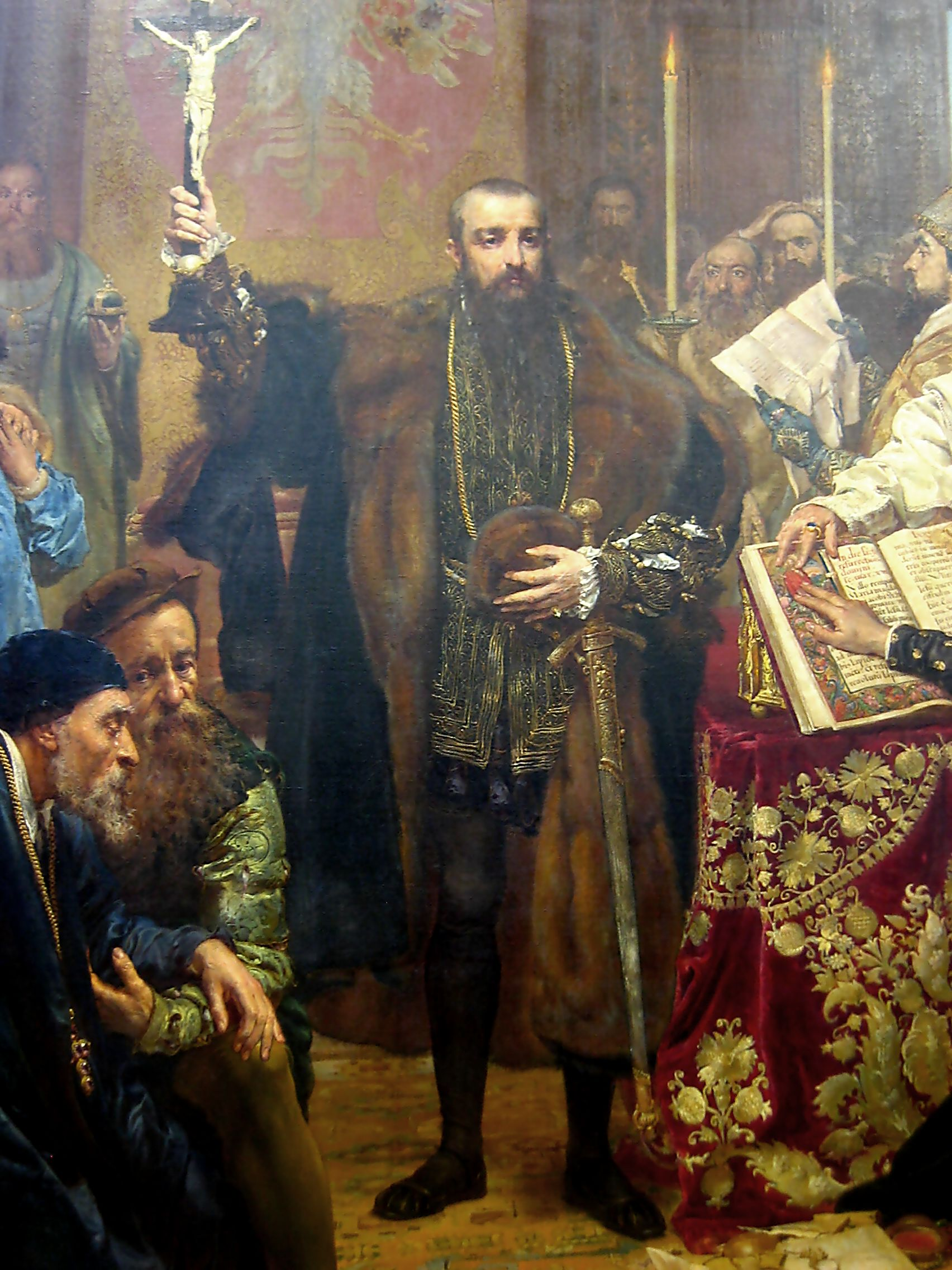 Sigismund II August of Poland during Lublin Union in 1569